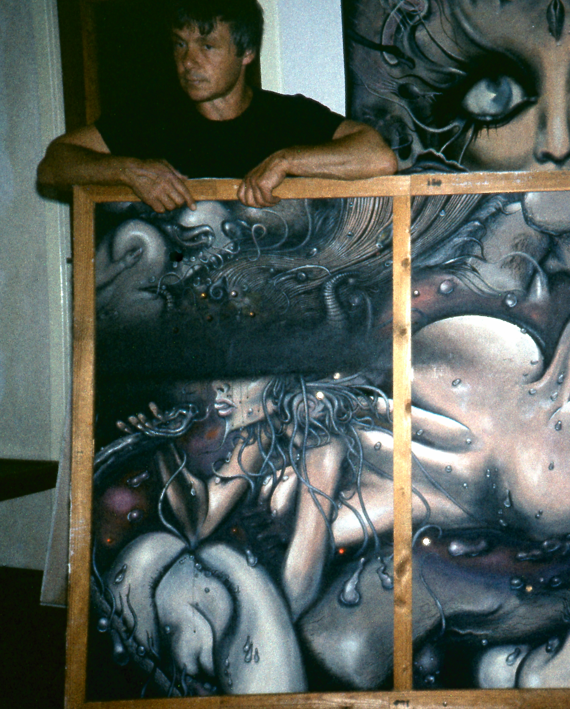 Karel Saudek in his home atelier